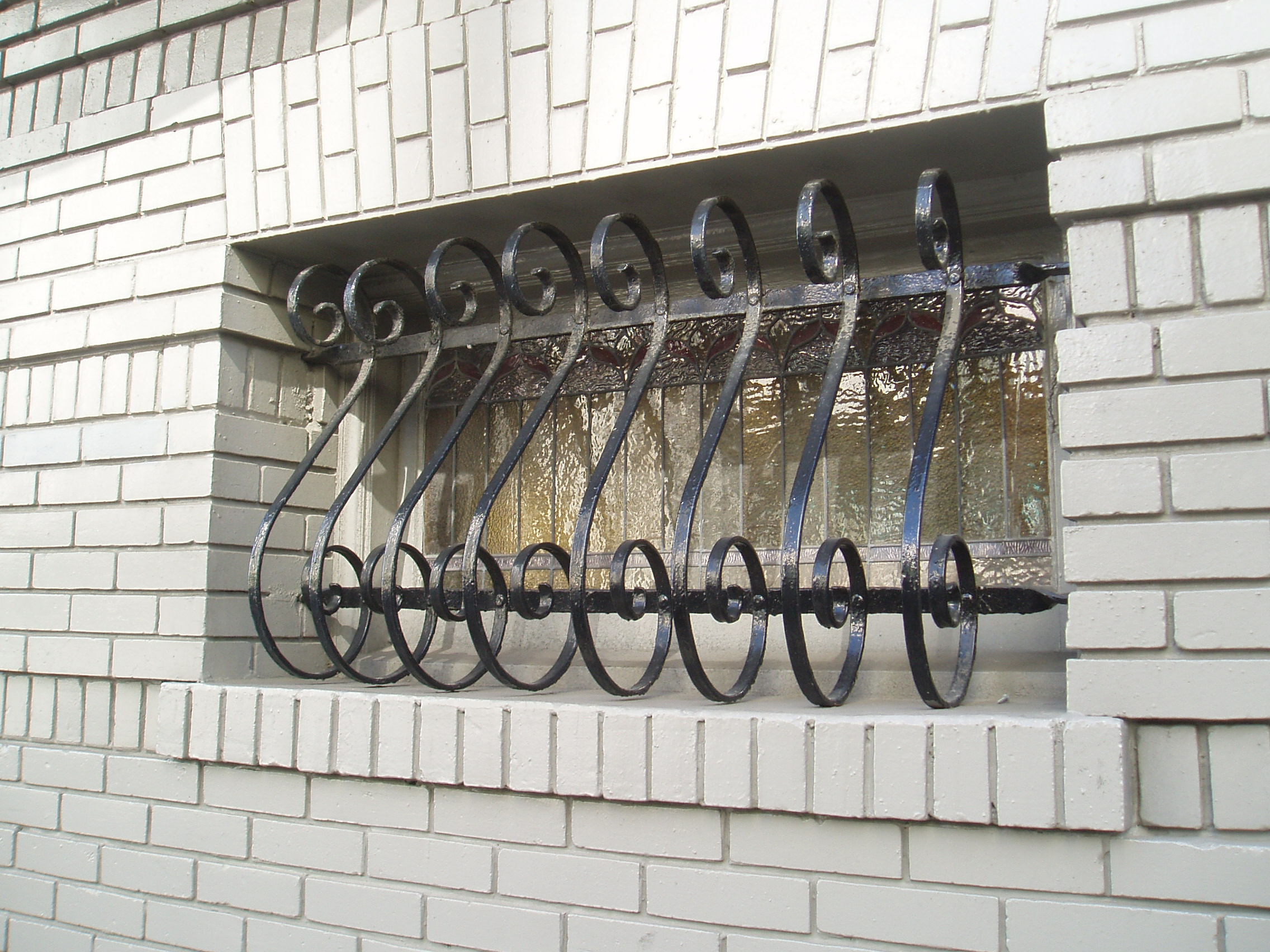 A wrought-iron grille covering a window in San Francisco's Nob Hill. You'll see many of these in Nob Hill.